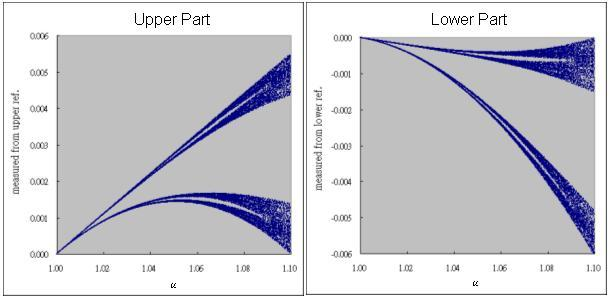 FORTRAN calculated tent map detail near tip.